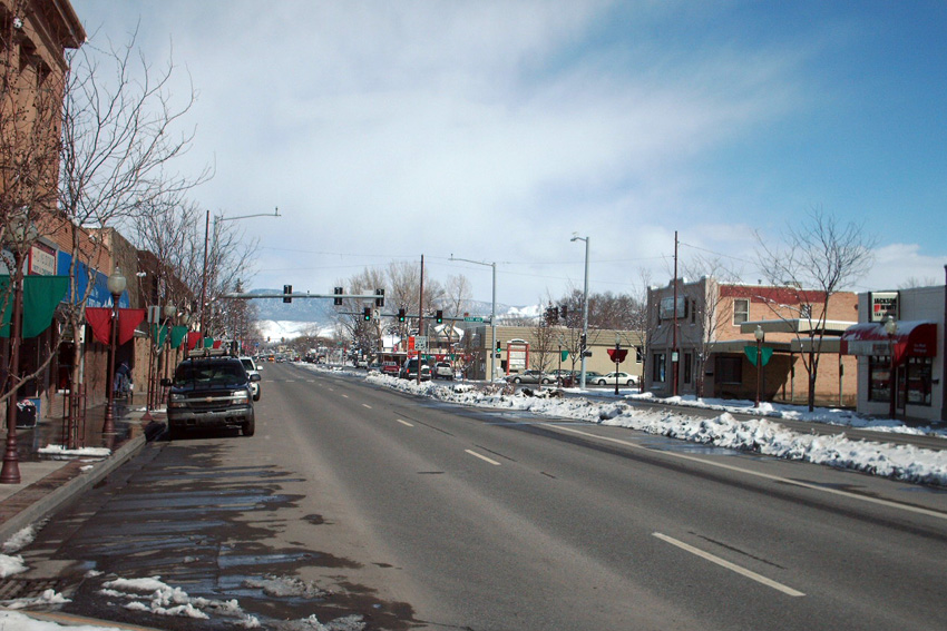 Main Street - Montrose, Colorado Author: Felipe Galoppini